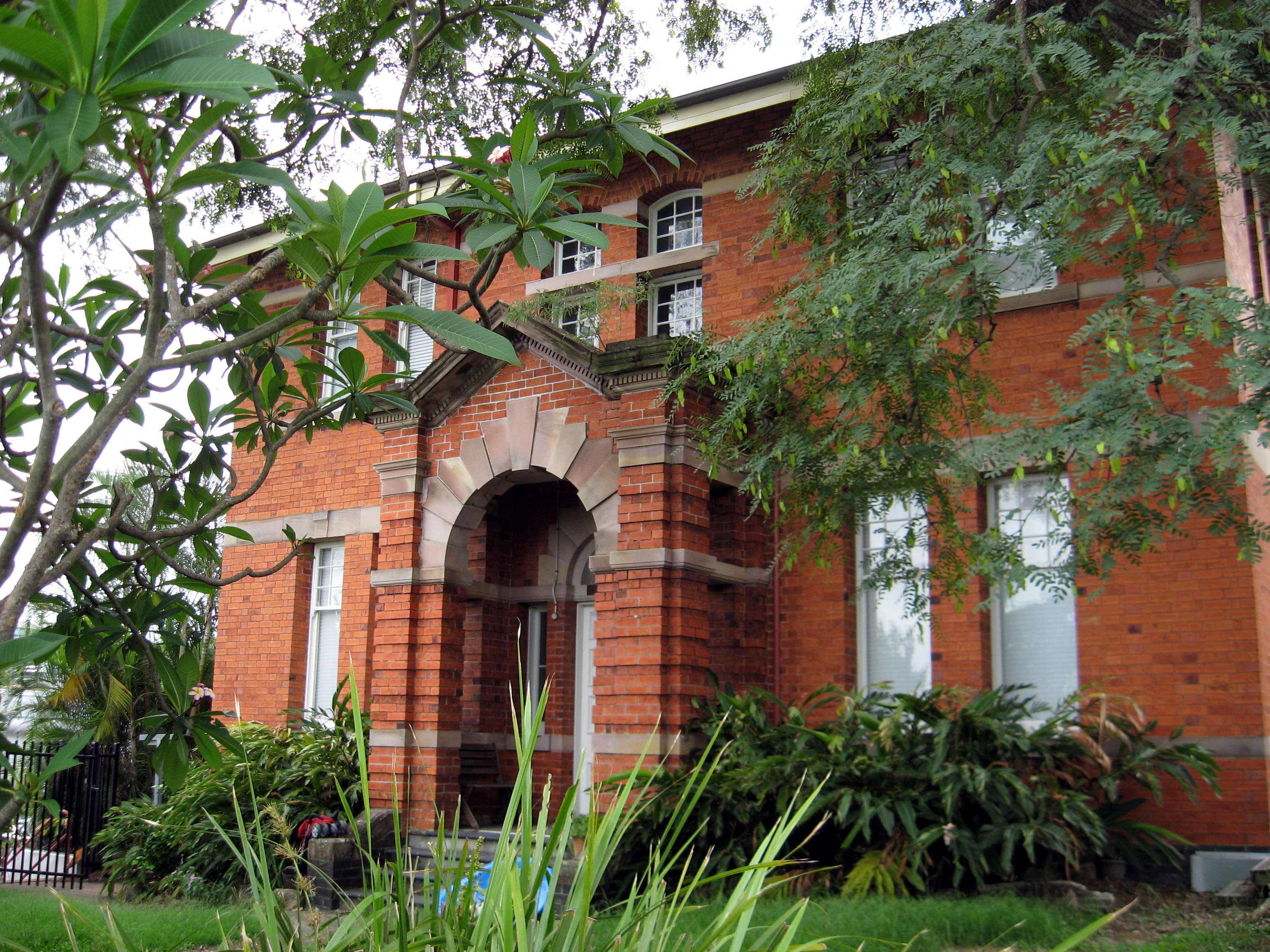 S.W. Griffith Building, Brisbane Grammar School, Queensland, Australia. The building faces College Road, Spring Hill, Brisbane. Originally built in 1899 as the Queensland Stock Institute, its current use includes the Director of Boarding Residence.